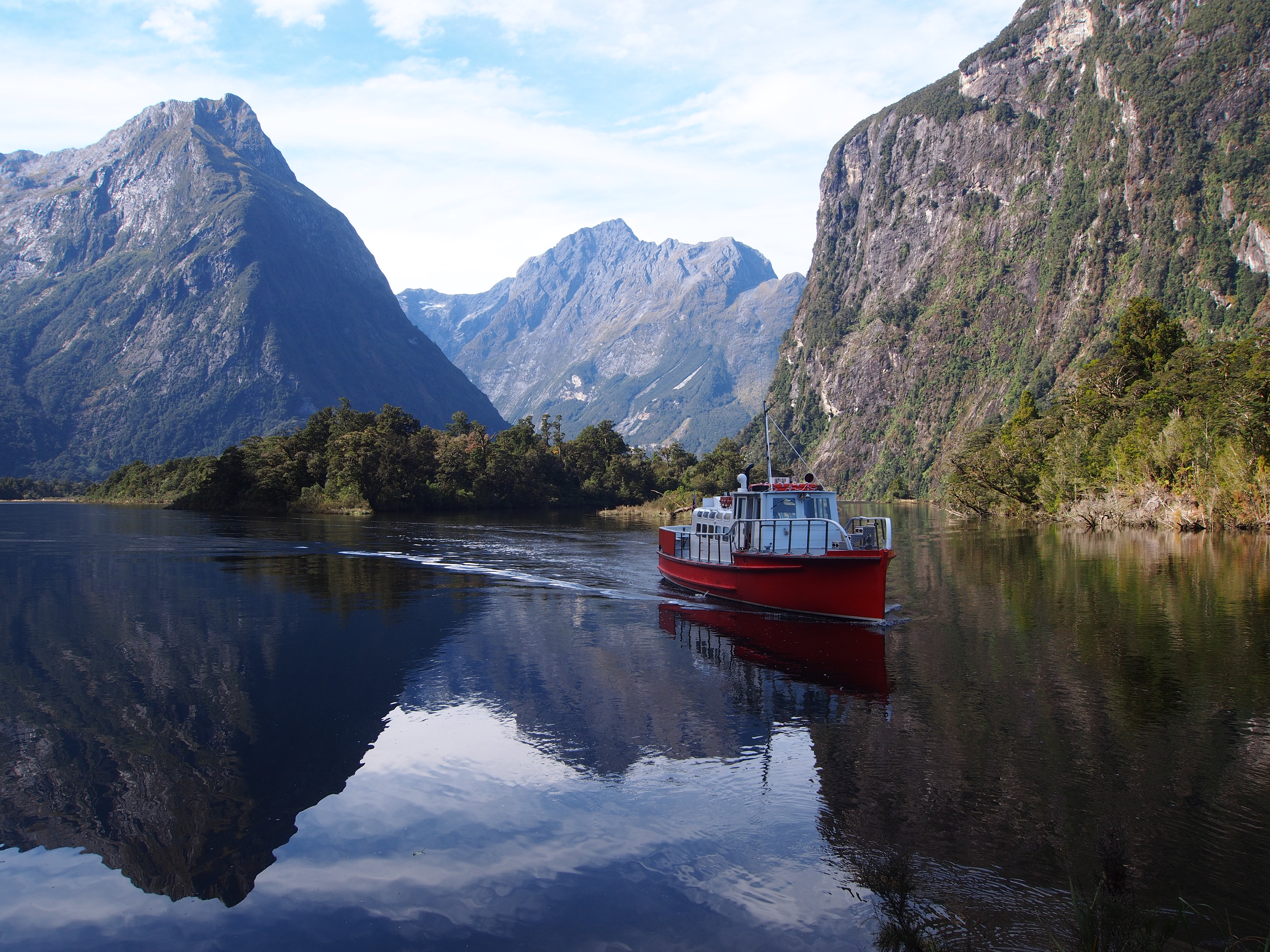 Boat to Milford Sound - 2013.04